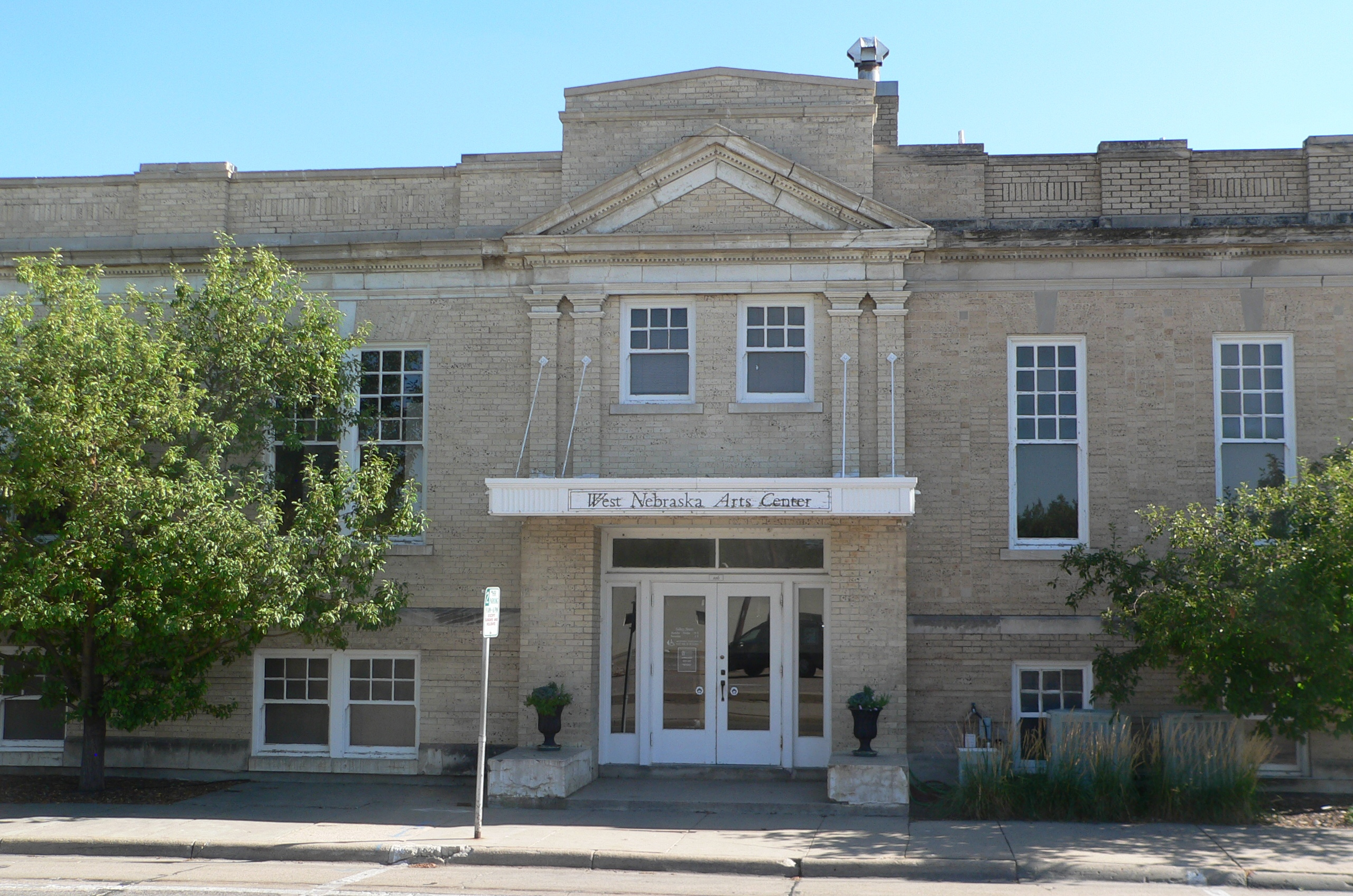 North entrance of Scottsbluff Carnegie Library in Scottsbluff, Nebraska. The Classical Revival building was constructed in 1921-22. The building now houses the West Nebraska Arts Center.